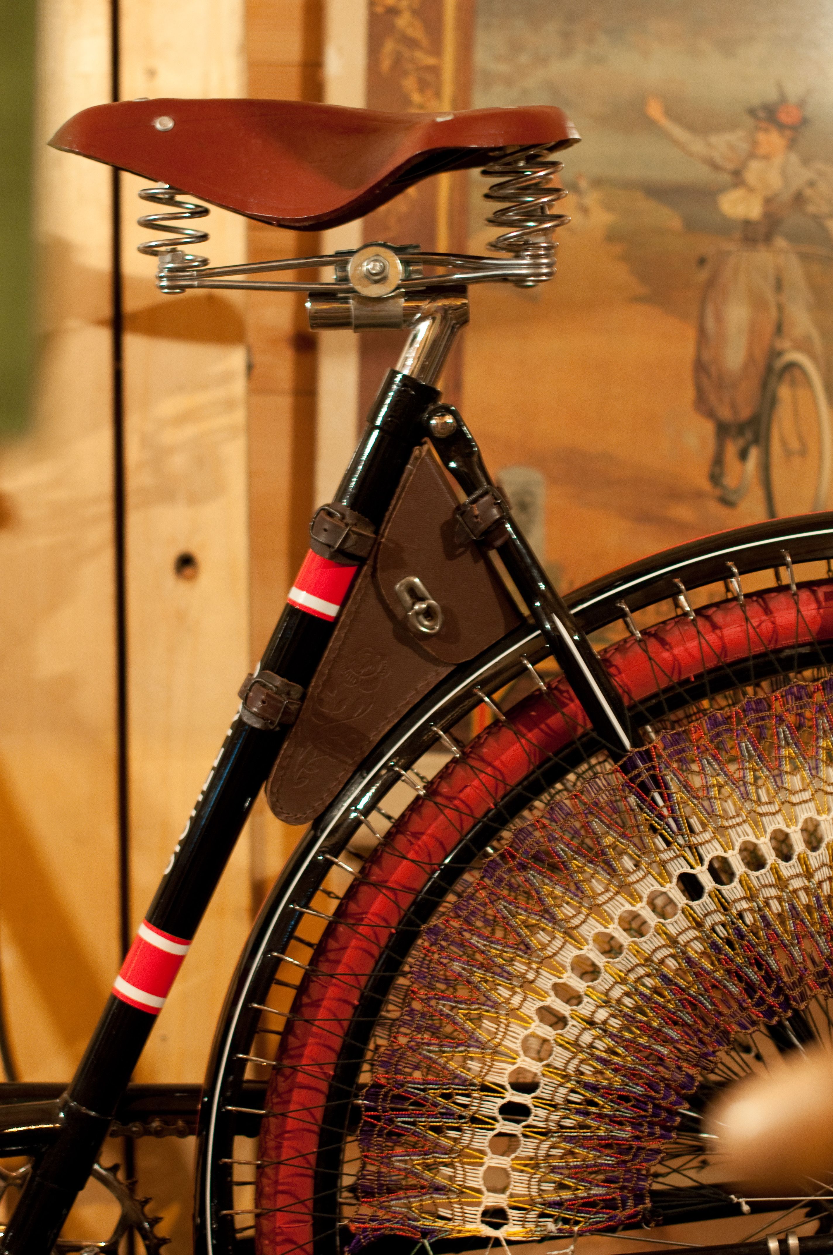 Vintage bicycle exposed in Varazdin, Croatia